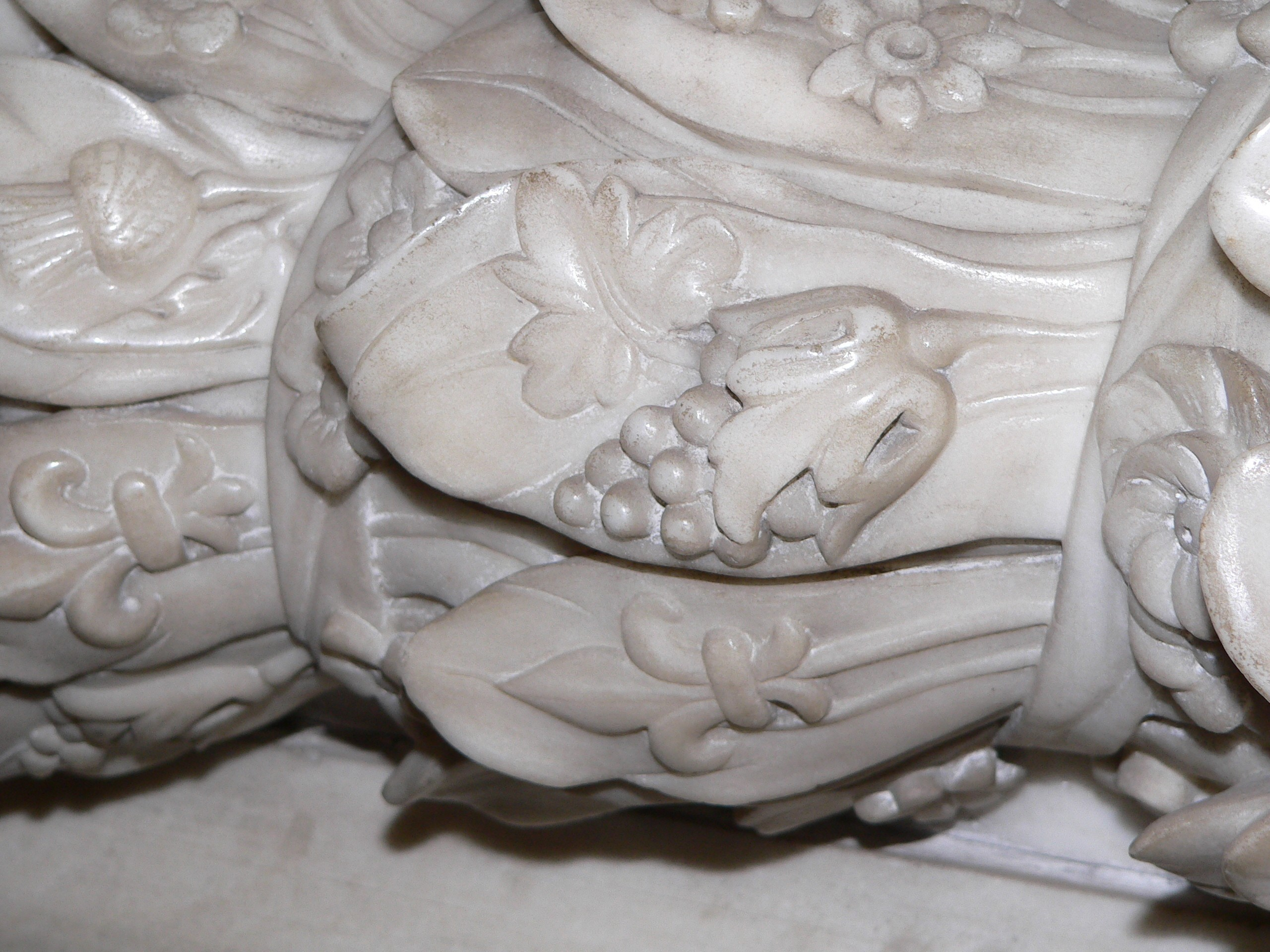 Possible Jacobite symbols in the Red Velvet room marble fireplaces